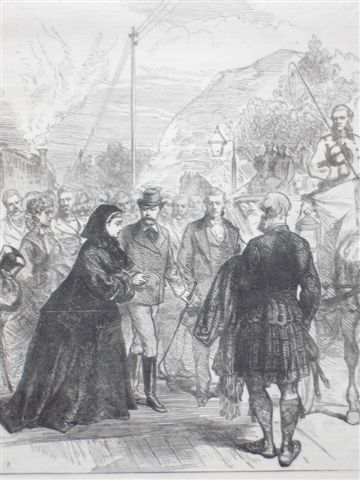 Source: Scan of illustration from The Illustrated London News, 9 December 1871, p. 541 Queen Victoria visits Albert Edward, Prince of Wales (later King Edward VII of the United Kingdom), who was ill from typhoid fever.